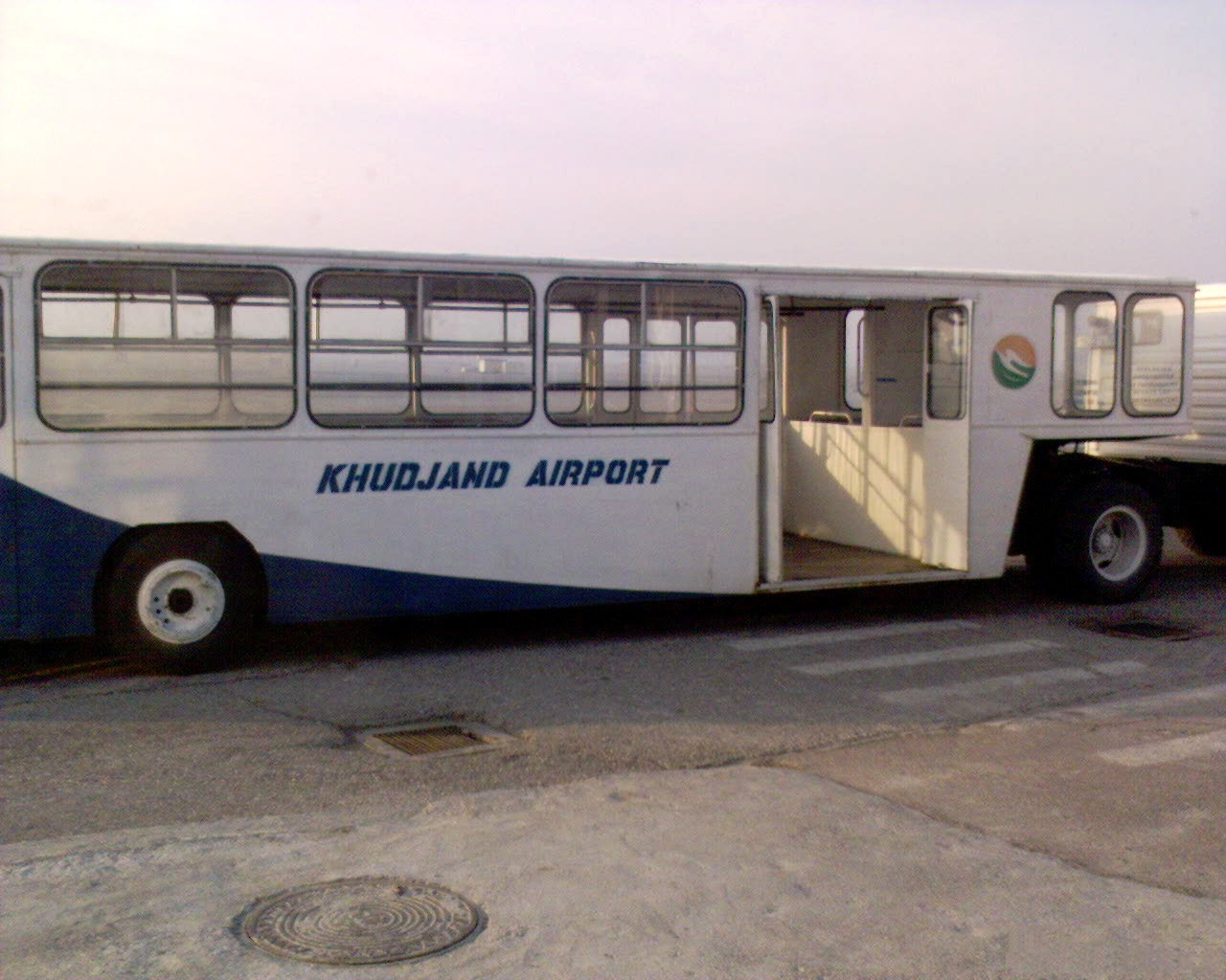 The passenger bus in Khudjand Airport